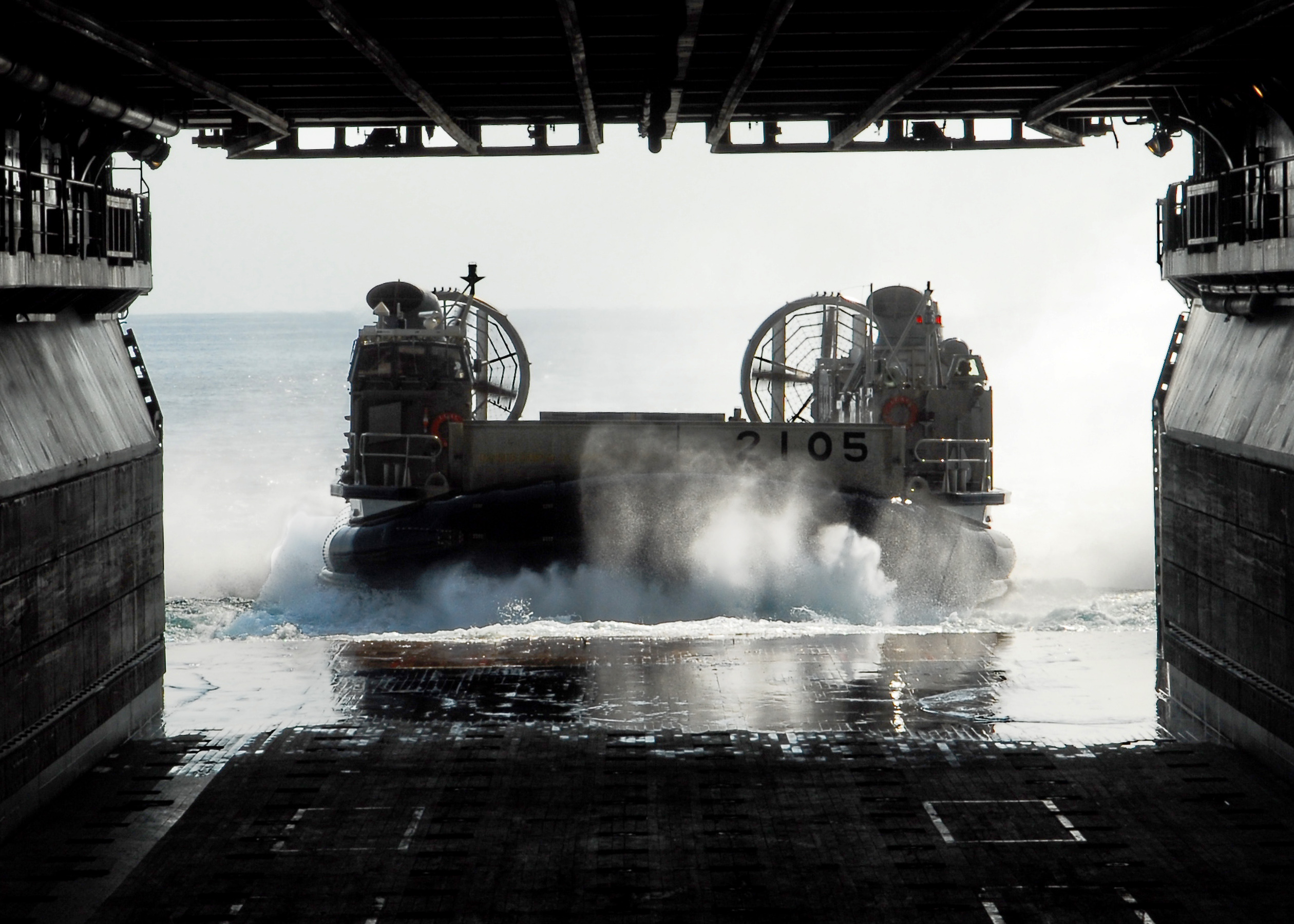 EAST CHINA SEA (Dec. 6, 2010) - A landing craft air cushion (LCAC 2105) from the Japan Maritime Self-Defense Force enters the well deck of the amphibious assault ship USS Essex (LHD 2). Essex is part of the forward-deployed Essex Amphibious Ready Group and is participating in exercise Keen Sword 2011. (U.S. Navy photo by Mass Communication Specialist 3rd Class Andrew Ryan Smith/Released)